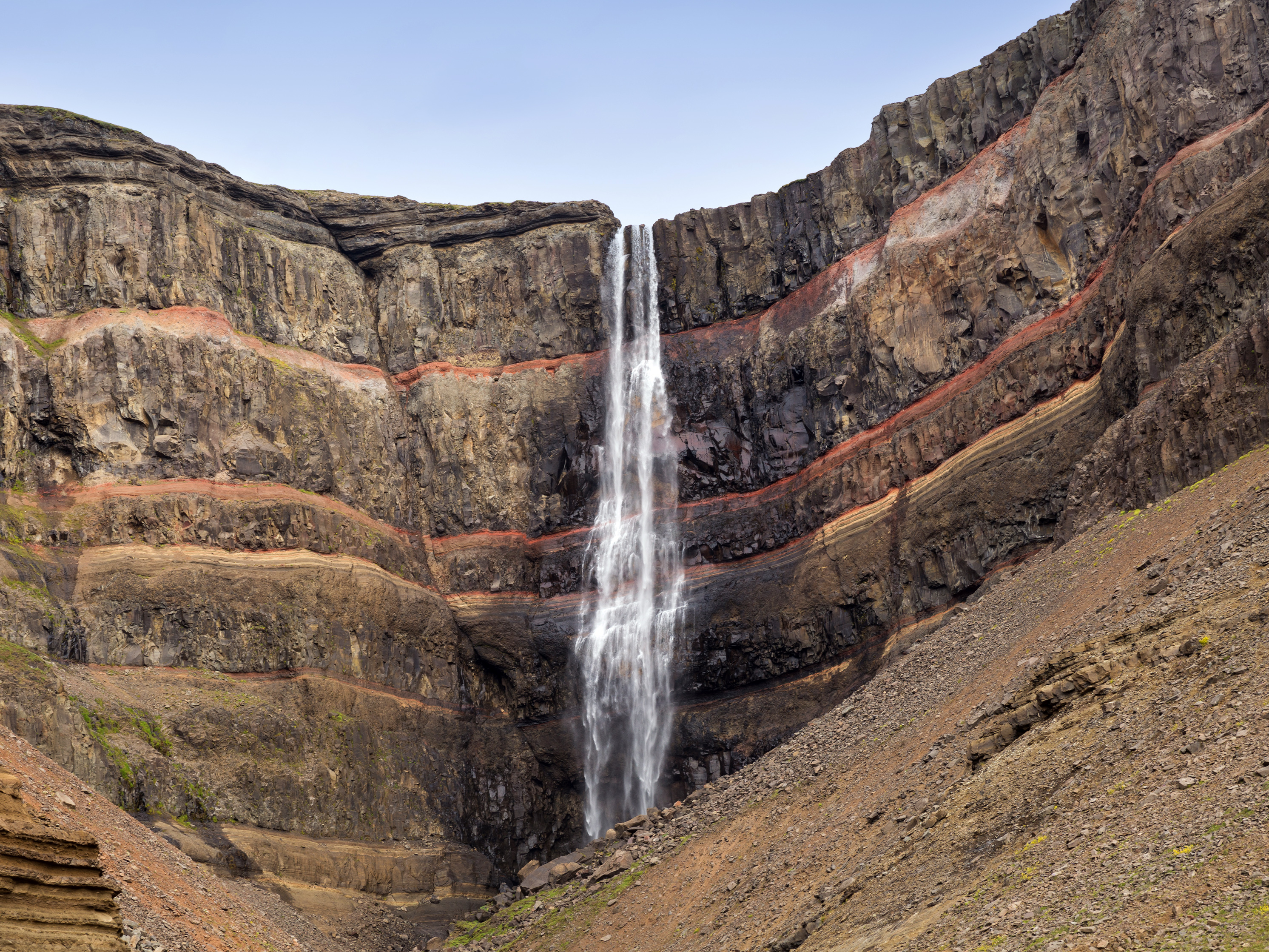 Hengifoss, waterfall in Iceland